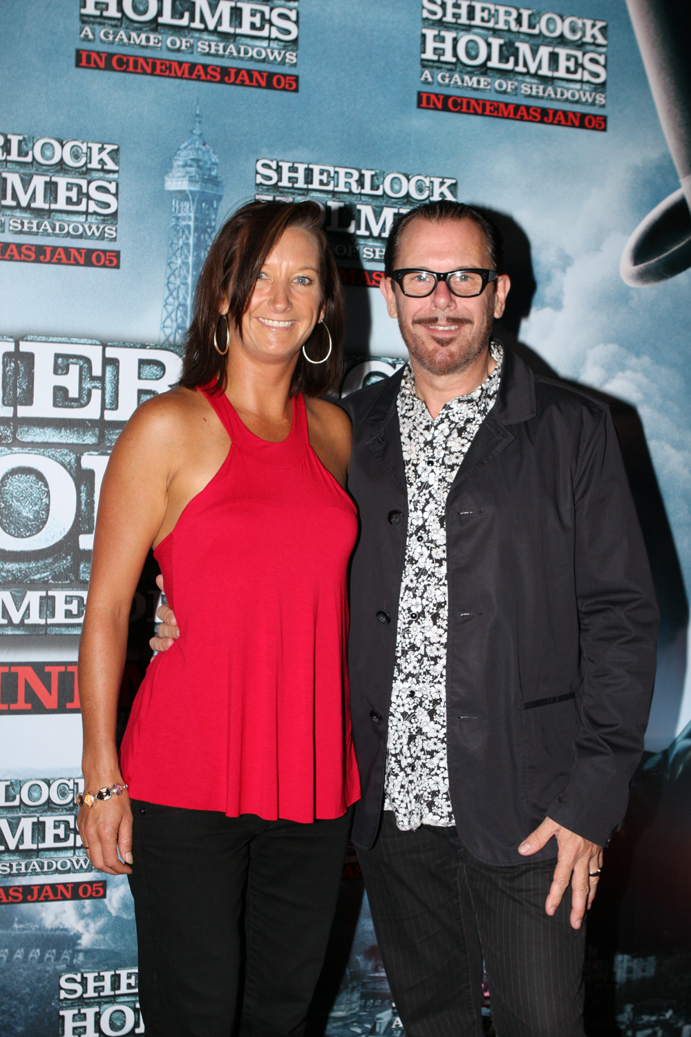 The Sydney premiere of this summer’s blockbuster SHERLOCK HOLMES: A GAME OF SHADOWS, took place at Event Cinemas, Bondi Junction, in Sydney's eastern suburbs earlier tonight. Guests attended a private cocktail reception in the Set Bar before the enjoying a screening of Guy Ritchie’s sequel to his 2009 blockbuster. The guests started pouring in at 6pm and the movie kicked off at 7pm. Event Cinemas at Westfield Bondi Junction once again snatched the bragging rights to a world class premiere. Guests included Kerri-Anne Kennerley, Layne Beachley, Kirk Pengilly, Sophie Lowe, Jonathon Coleman and Lizzy Lovette. The Movie Plot... Sherlock Holmes and his trusty sidekick Dr. Watson join forces to outwit and bring down their fiercest adversary, Professor Moriarty. Director: Guy Ritchie Writers: Kieran Mulroney, Michele Mulroney Actors: Robert Downey, Jr, Jude Law, Noomi Rapace, Jared Harris, Stephen Fry, Rachel McAdams, Eddie Marsan Producers: Gary Goetzman, Joel Silver Websites Sherlock Holmes 2 official website Village Roadshow Australia Event Cinemas Music News Australia